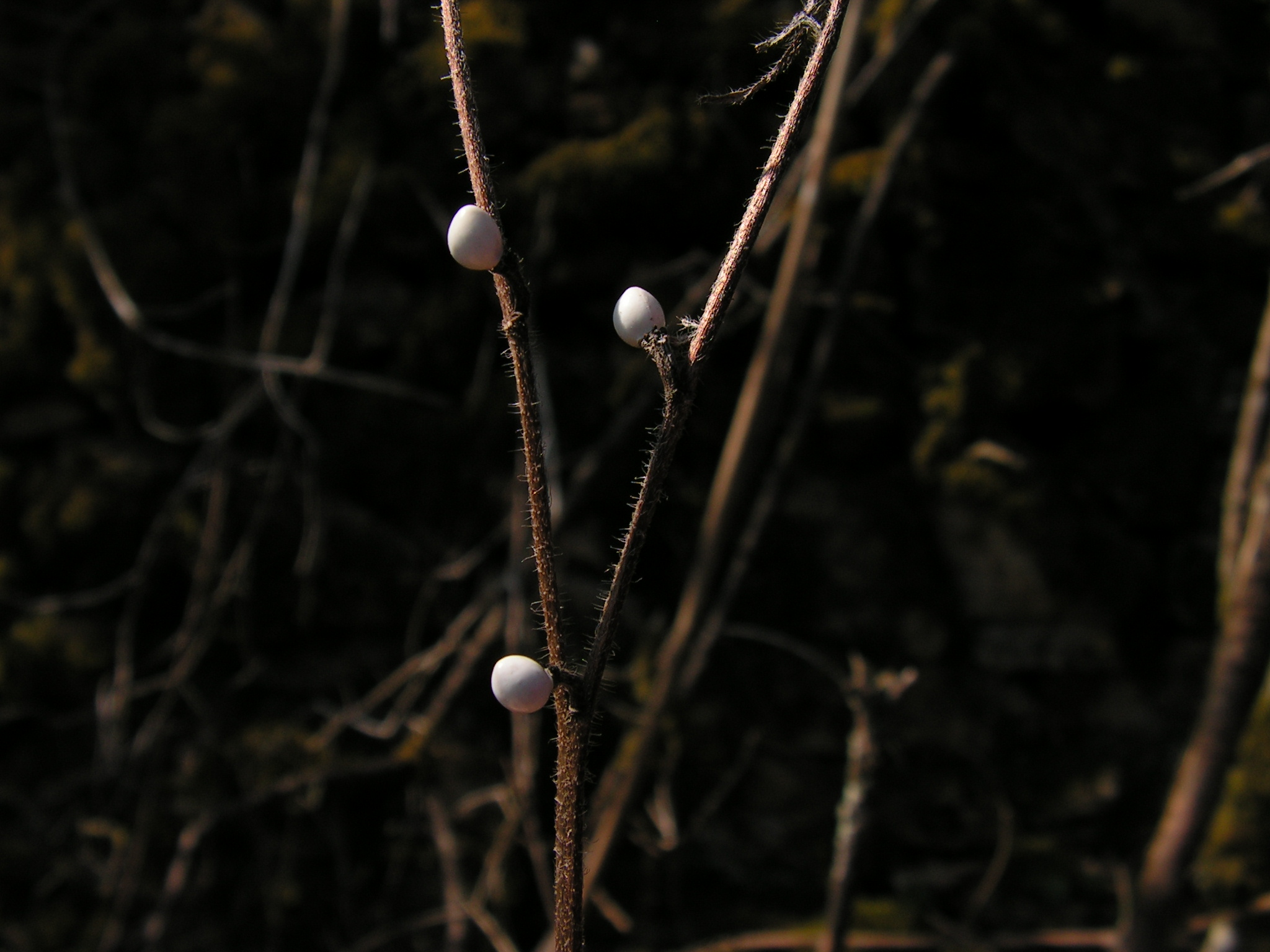 Purple Gromwell (Buglossoides purpurocaerulea, Lithospermum purpurocaeruleum) fruits, Couzon (France)